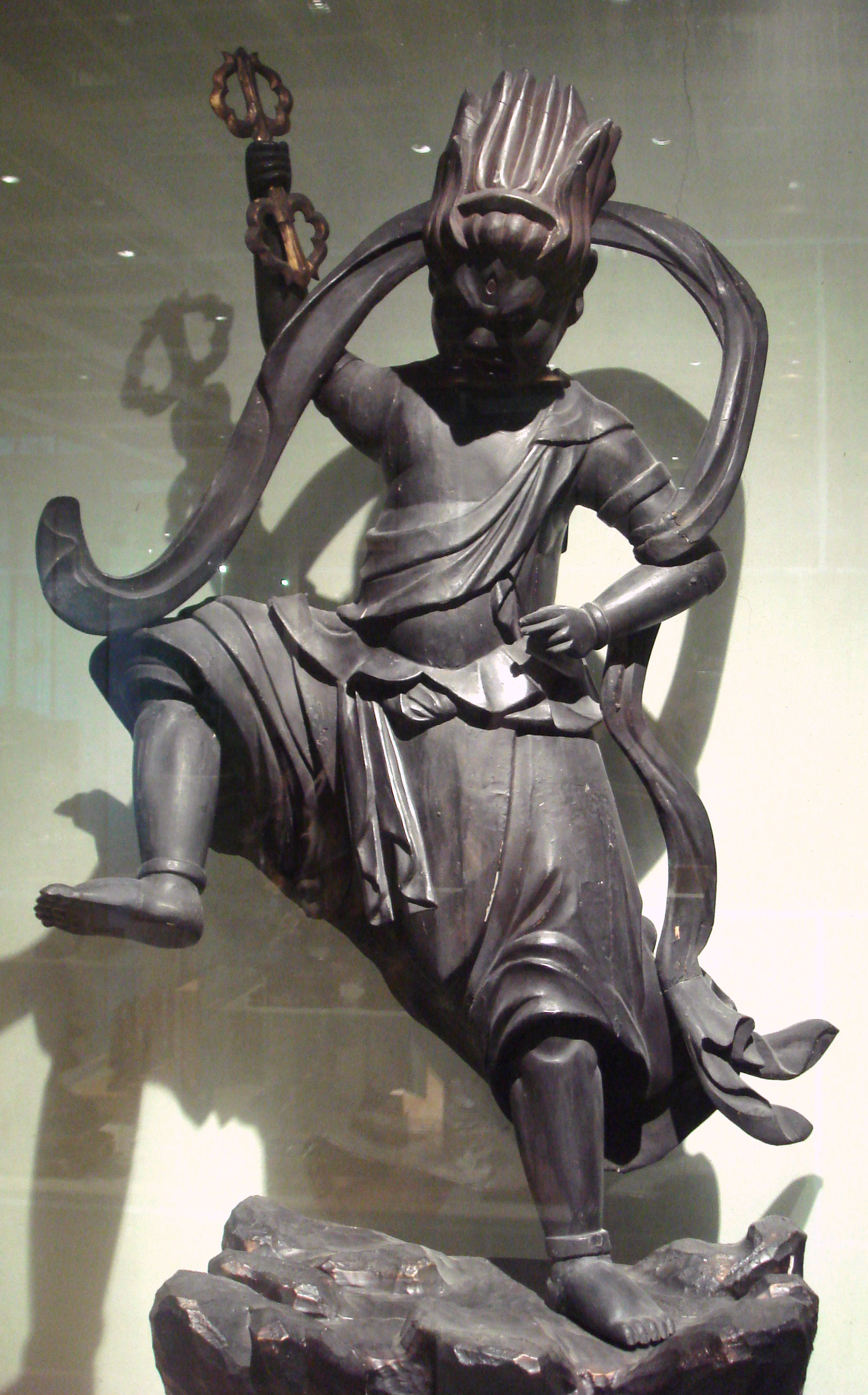 Zaou_Gongen_Circumstancial_appearance_of_Mount_Yoshino